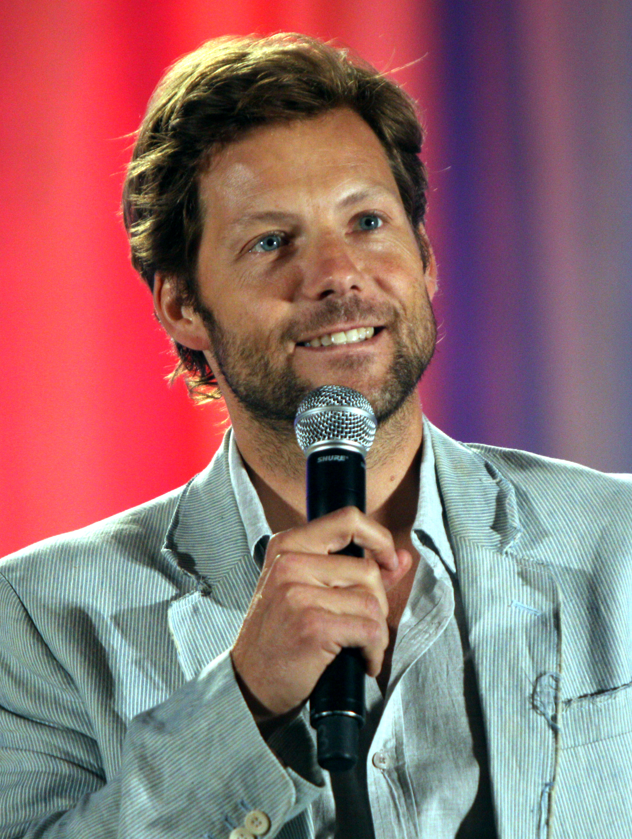 Jamie Bamber at the 2012 Phoenix Comicon in Phoenix, Arizona, U.S.